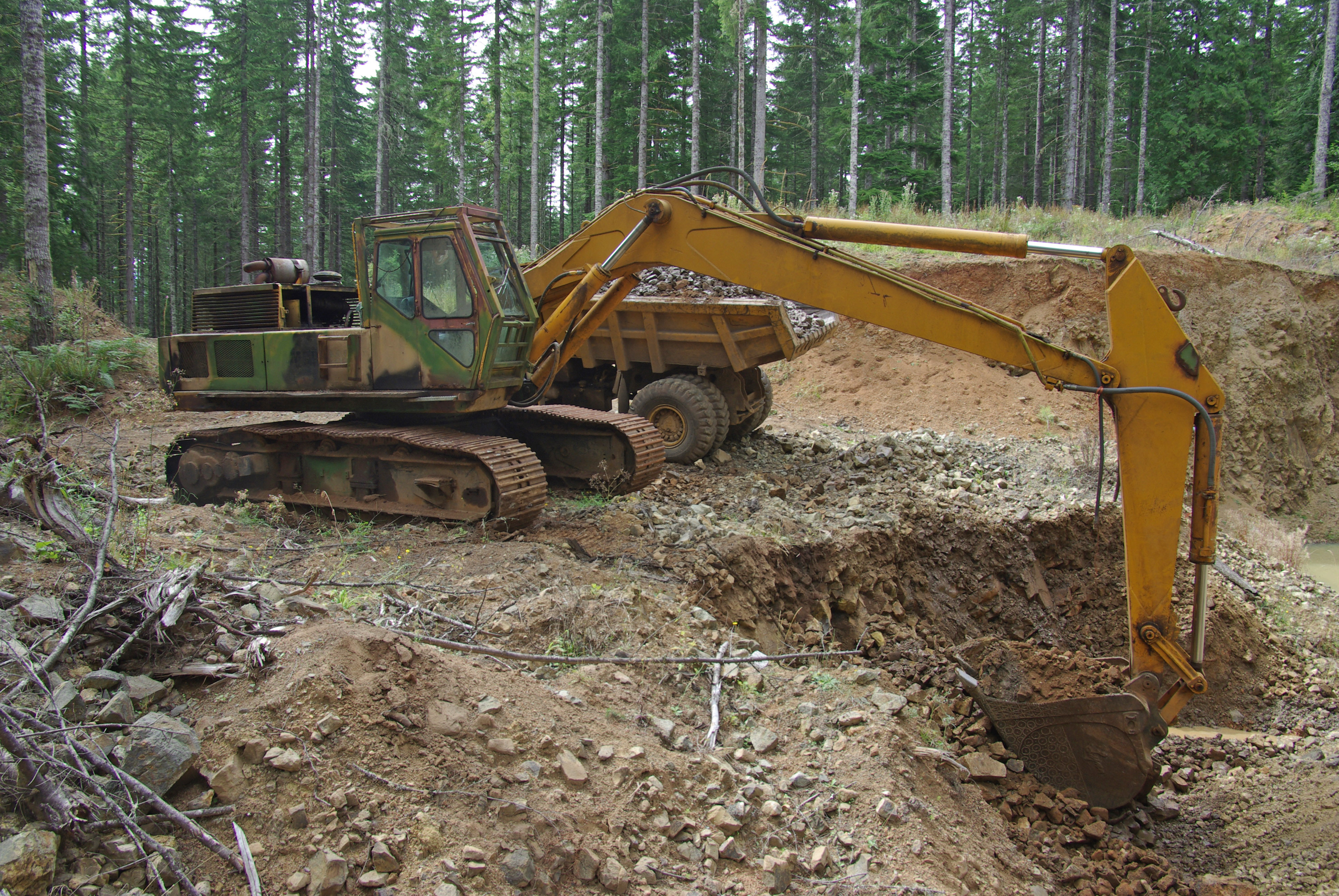 An older American 35A (manufactured around 1975) still working in a borrow pit in Oregon